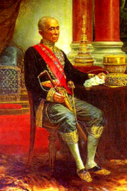 Crop of portrait of King Mongkut, RamaIV of Thailand which is displayed in the Chakri Mahaprasad Hall at the Grand Palace.